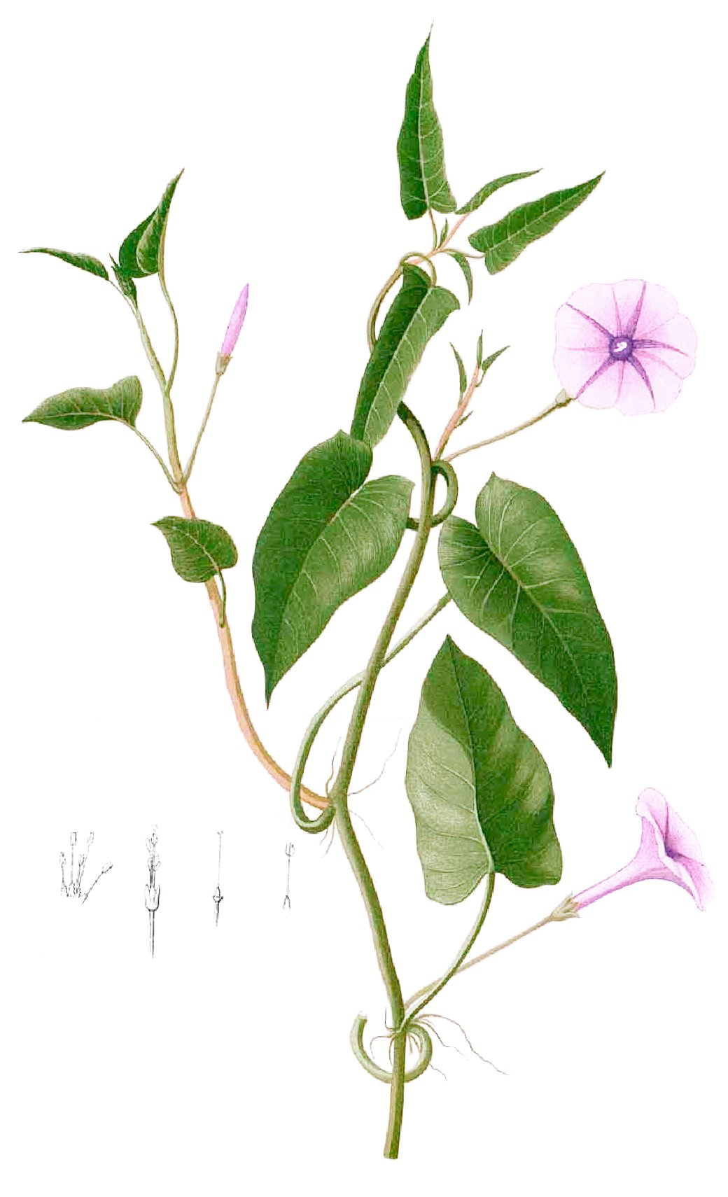 Plate from book Ipomoea aquatica